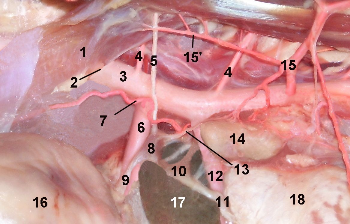 Celiac and cranial mesenteric ganglion in a cat, self-made specimen and photograph --Uwe Gille 02:47, 18 March 2006 (UTC) de: 1 Crus sinistrum (Diaphragma), 2 Hiatus aorticus, 3 Aorta, 4 Arteria lumbalis, 5 Nervus splanchnicus major, 6 Arteria celiaca, 7 Arteria phrenica caudalis (hier als Variation aus 6 hervorgehend), 8 Ganglion celiacum, 9 Plexus celiacus, 10 Ganglion mesentericum craniale, 11 Plexus mesentericus cranialis, 12 Arteria mesenterica cranialis, 13 Nervus splanchnicus minor, 14 Nebenniere, 15 Arteria abdominalis cranialis (15' Zwerchfellast), 16 Magen, 17 Leber (Lobus caudatus), 18 Niere